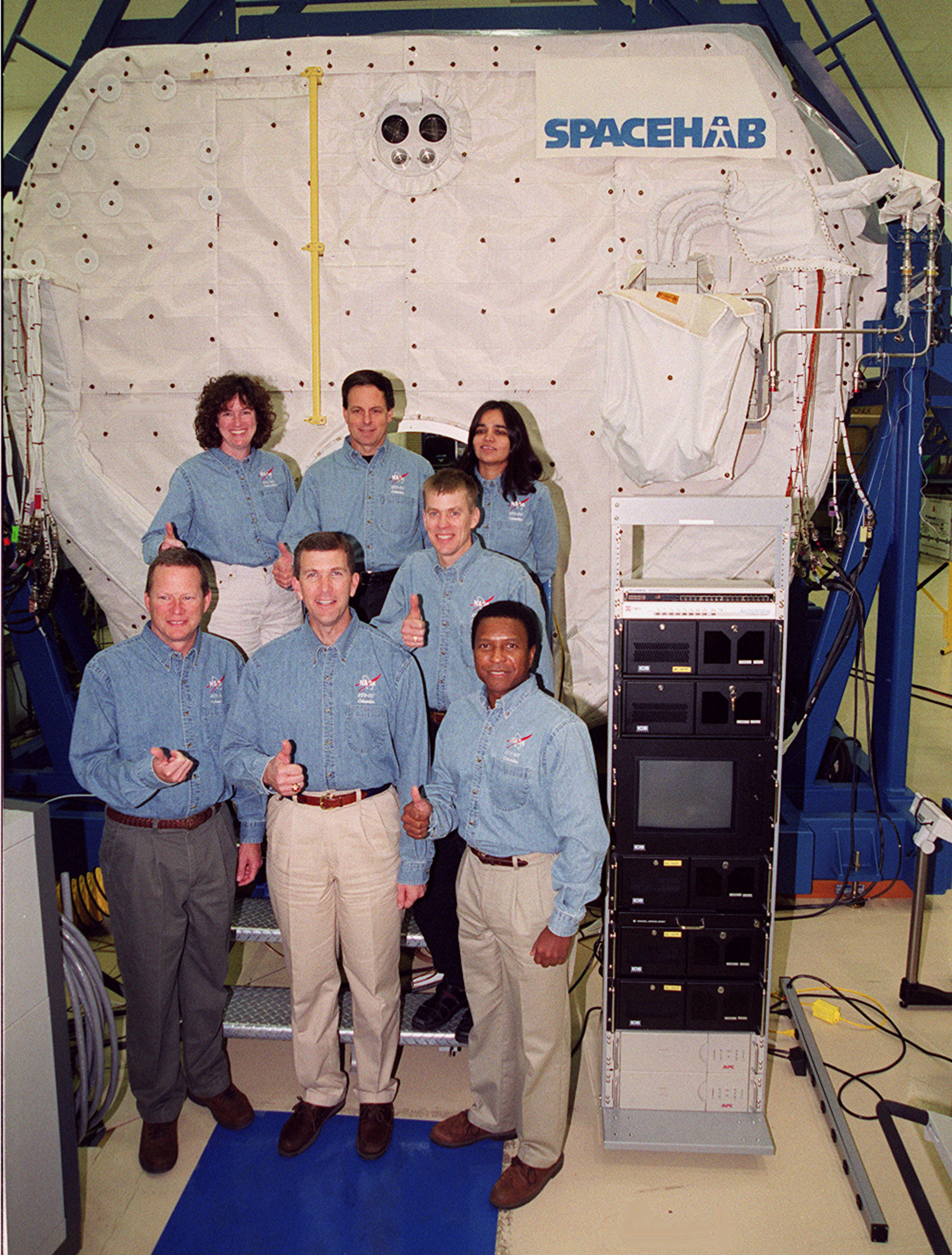 Taking part in In-Flight Maintenance training, the STS-107 crew poses in front of the SPACEHAB Double Module. In back are Mission Specialist Laurel Clark, Payload Specialist Ilan Ramon of Israel and Mission Specialist Kalpana Chawla; in front are Mission Specialist David M. Brown, Commander Rick D. Husband, Pilot William C. McCool (behind) and Mission Specialist Michael Anderson